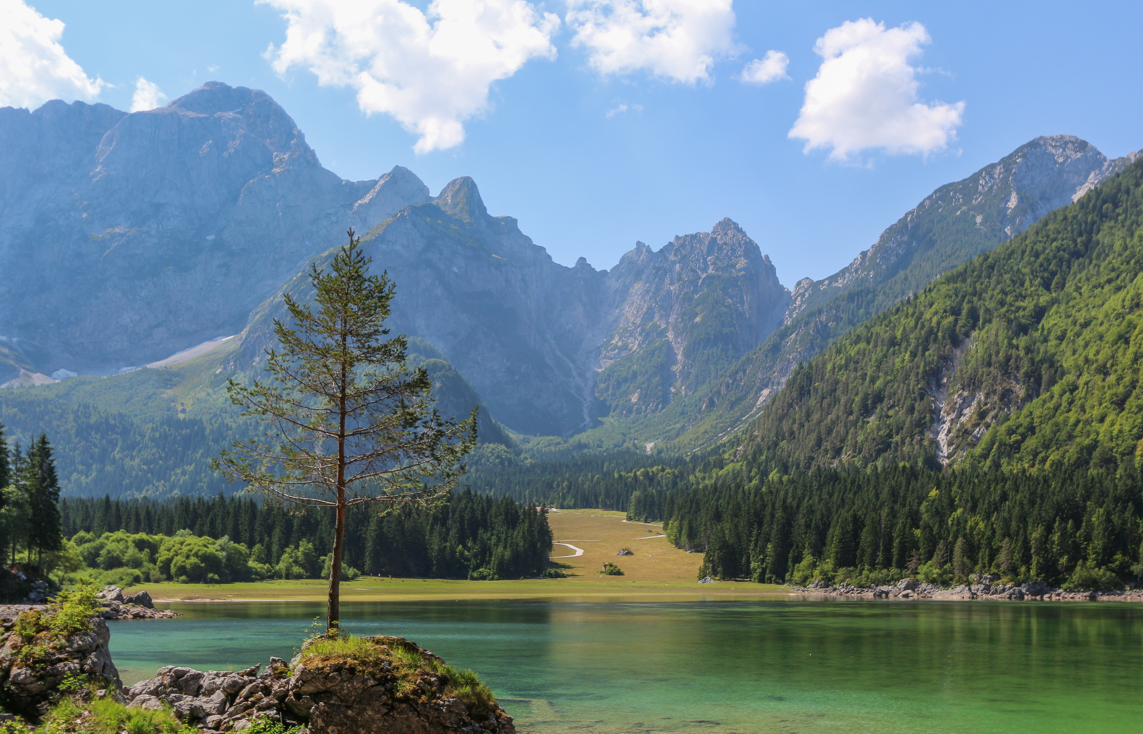 The upper Fusine lake, Fusine di Valroma, Tarvisio, Friuli The making of this work was supported by Wikimedia Austria. For other files made with the support of Wikimedia Austria, please see the category Supported by Wikimedia Österreich.